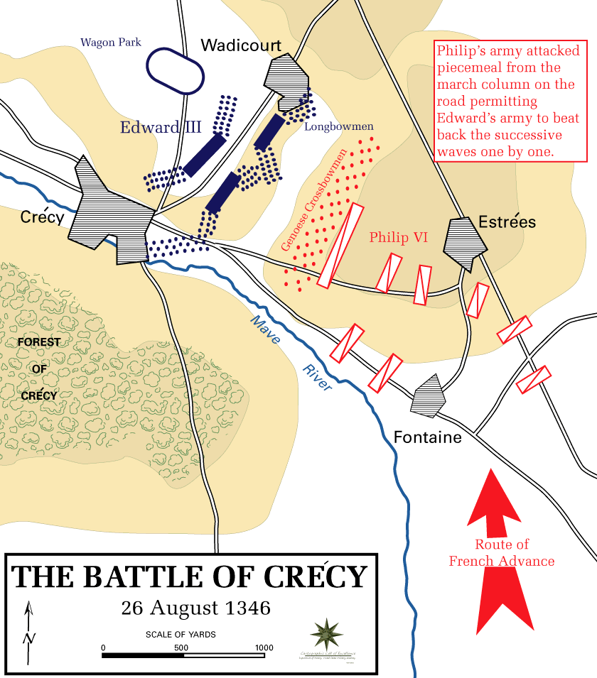 Battle of Crécy, 26 August 1346